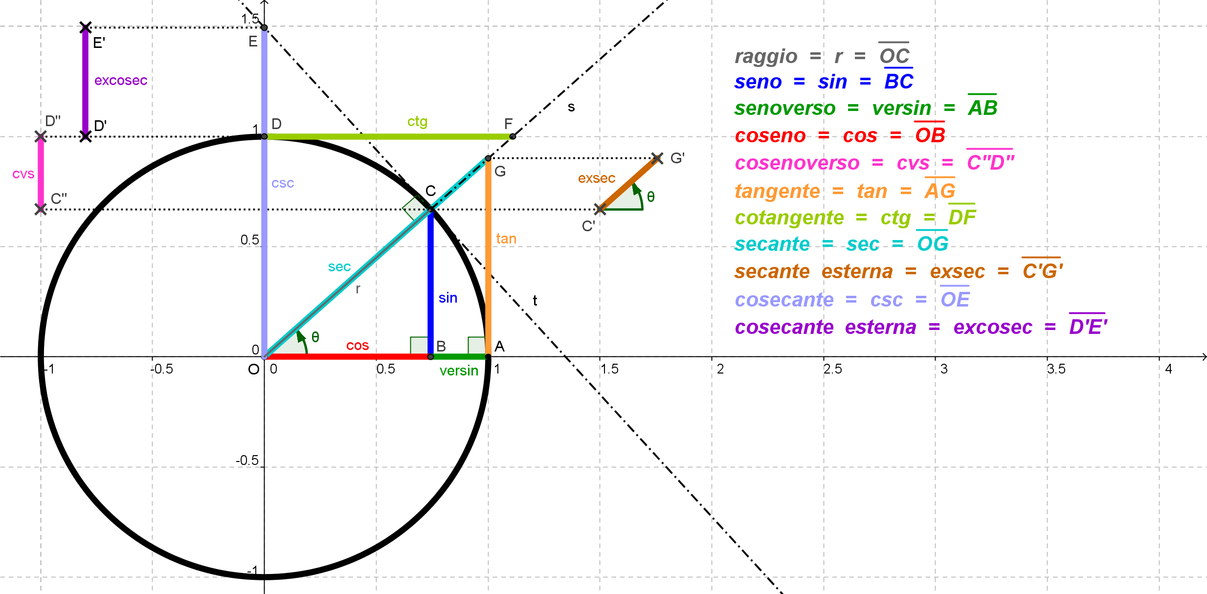 Trigonometric functions